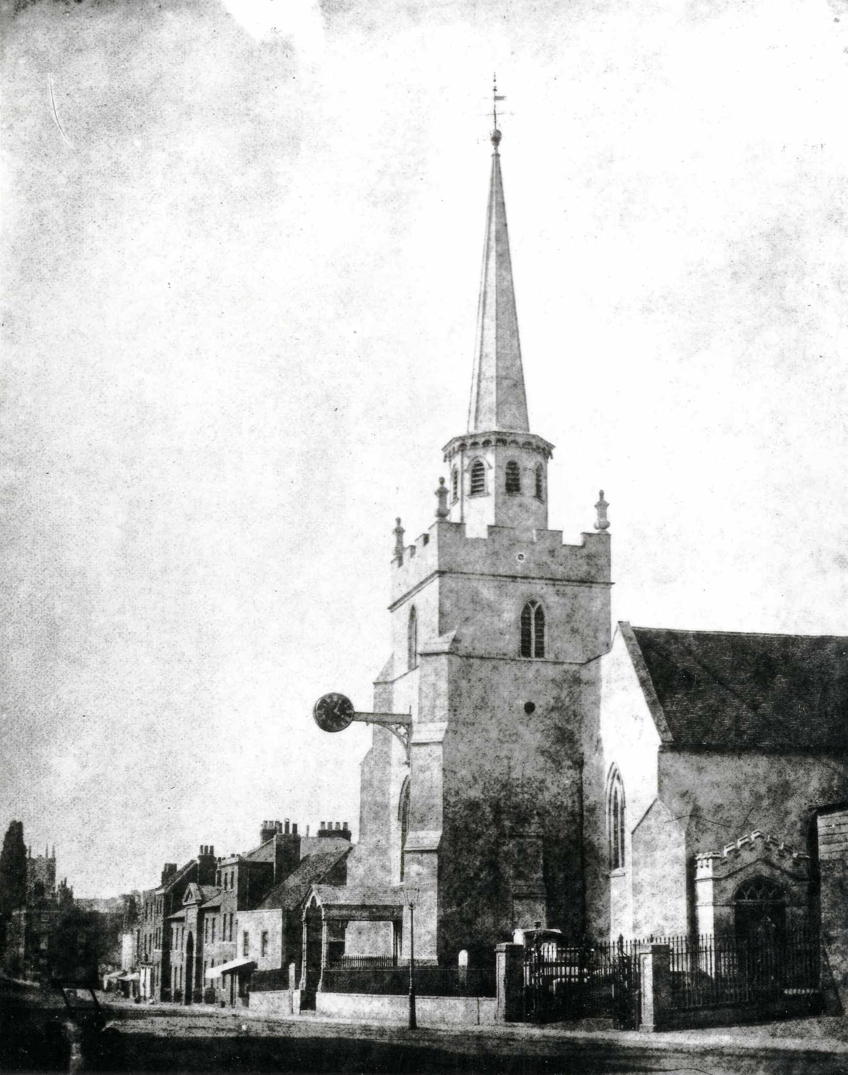 St. Giles's Church, Reading, from the south, showing buildings on the east side of Southampton Street, the church tower with the clock on a bracket and porch to the west door, and the south door. Photograph by W. H. Fox Talbot. 1840-1849.